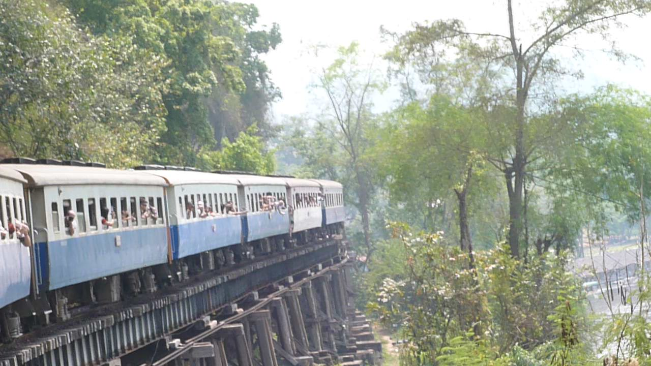 Burma Railway, Kwai River ( Khwae Yai), Kanchanaburi, Thailand